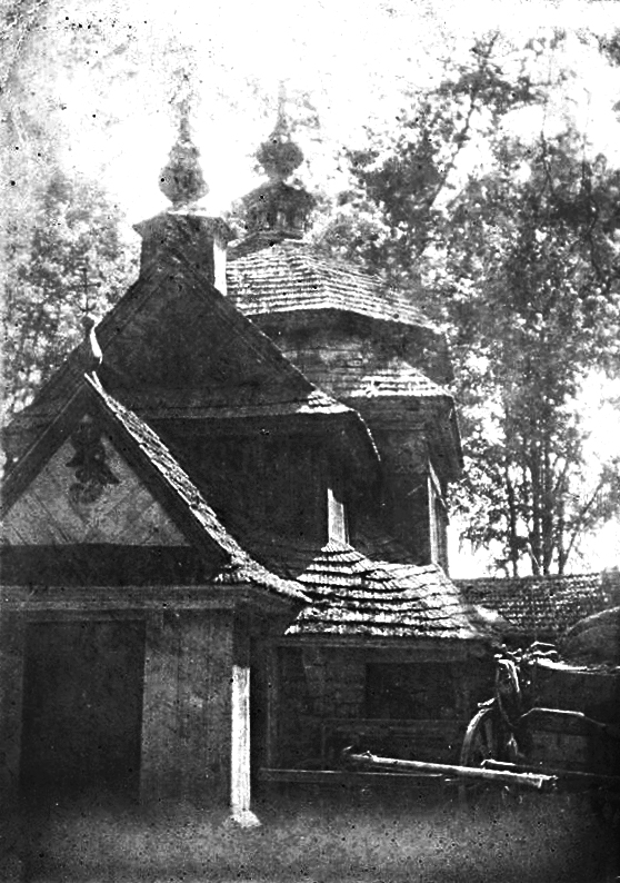 Wooden church of St. John the Theologian in Nielepkowice was built in 1718. Originally it was a trilateral wooden church with one bath over the nave and a bell tower over the maidens. In 1788, the church was somewhat rebuilt - a bell tower was disassembled over the maid and erected separately. The church survived both world wars, but in the early 1950s it was disassembled by the Polish authorities.